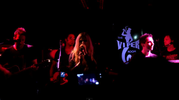 Avril performed in Viper Room, La